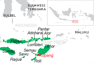 Wrong map from Indonesian Wikipedia edited by J. Patrick Fischer